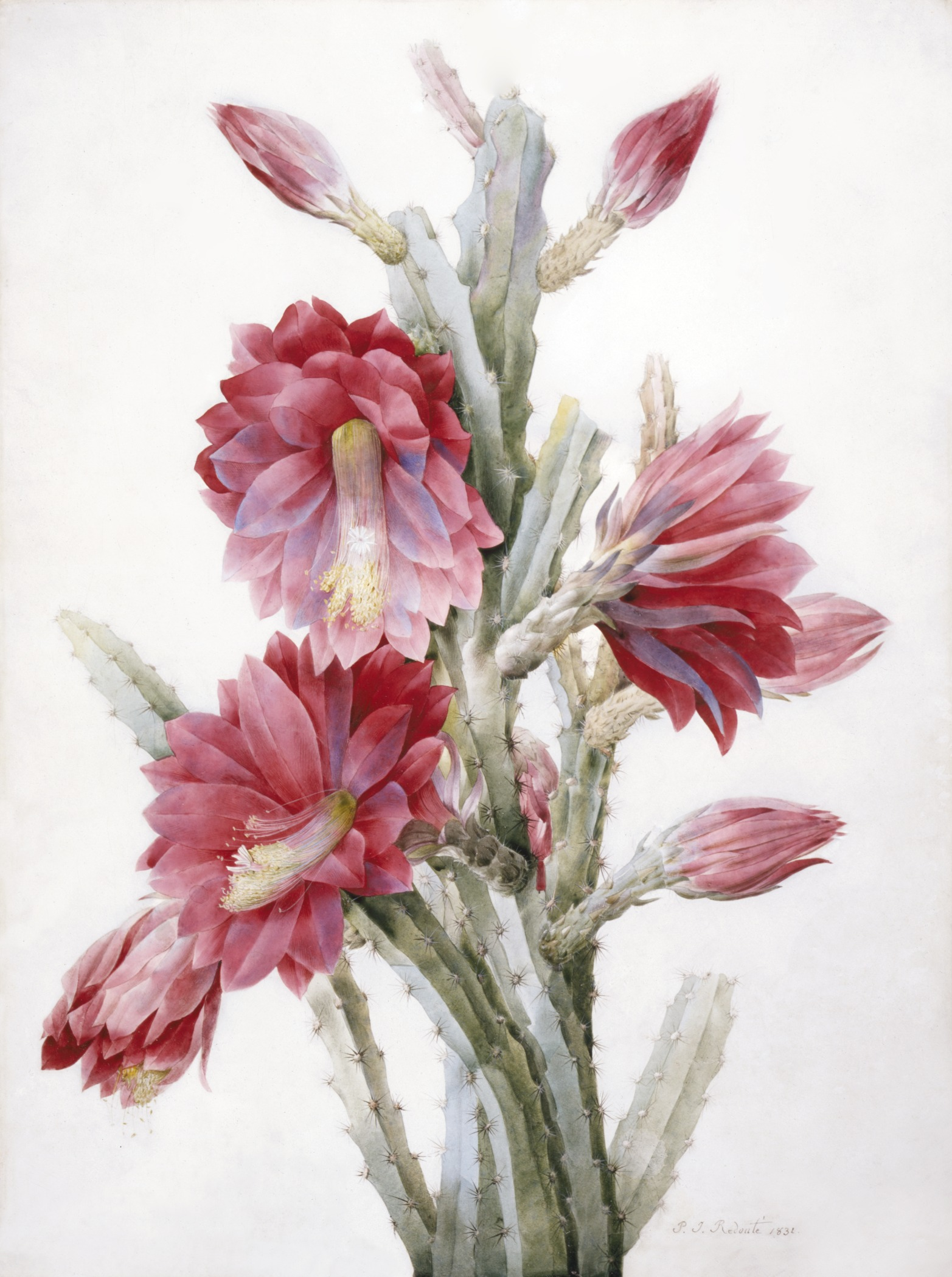 France, 1831 Drawings Watercolor on vellum Gift of the 2003 Collectors Committee (M.2003.57) Prints and Drawings